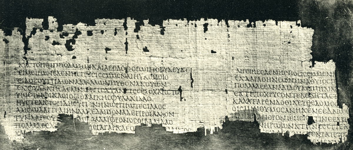 A second century papyrus of the Catalogue of Women (P.Berol. inv. 9739 col. iv-v = frr. 199–200 M-W)